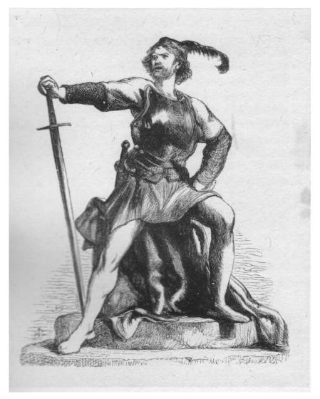 The rebel Jack Cade seats himself on London Stone, in William Shakespeare's Henry VI, Part 2 (Act 4, Scene 6). Illustration by Sir John Gilbert (1817-97) in Works of William Shakespeare (London: Routledge, 1881) vol 8.